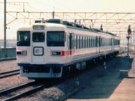 JR East 165 series "Shuttle Maihama" Joyful Train EMU at Nishifunabashi Station